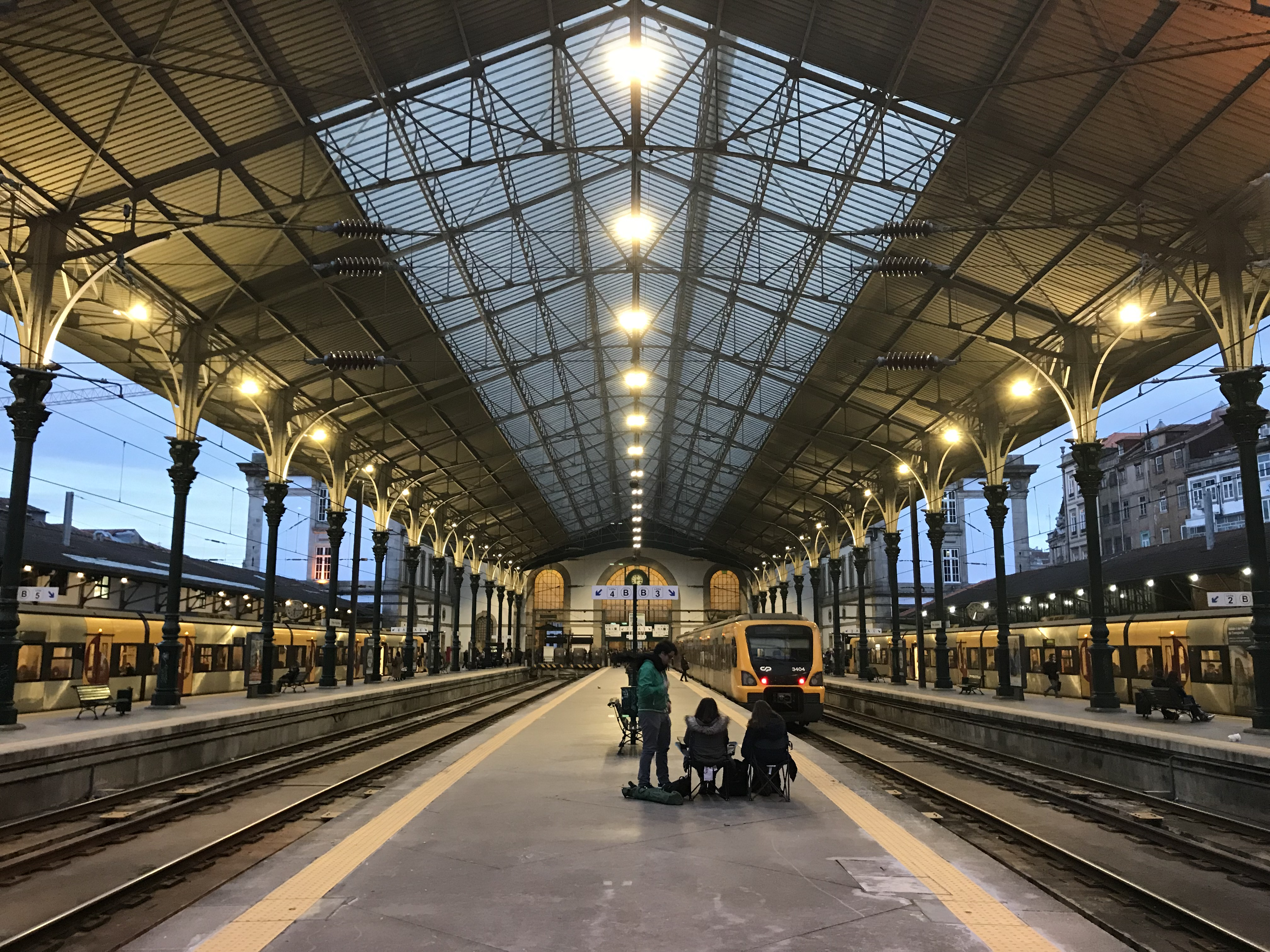 View west along São Bento railway station platforms. In foreground, art students sketch station.